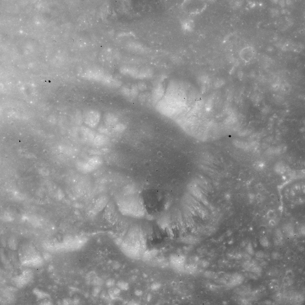 Auwers crater, on the moon.